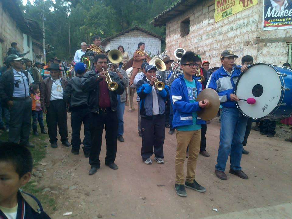 Tradición de Antaño... Gran Entrada por Navidad 24 de Diciembre... Cargantes 2014 Salustio Juárez y Magdalena Ayquipa.